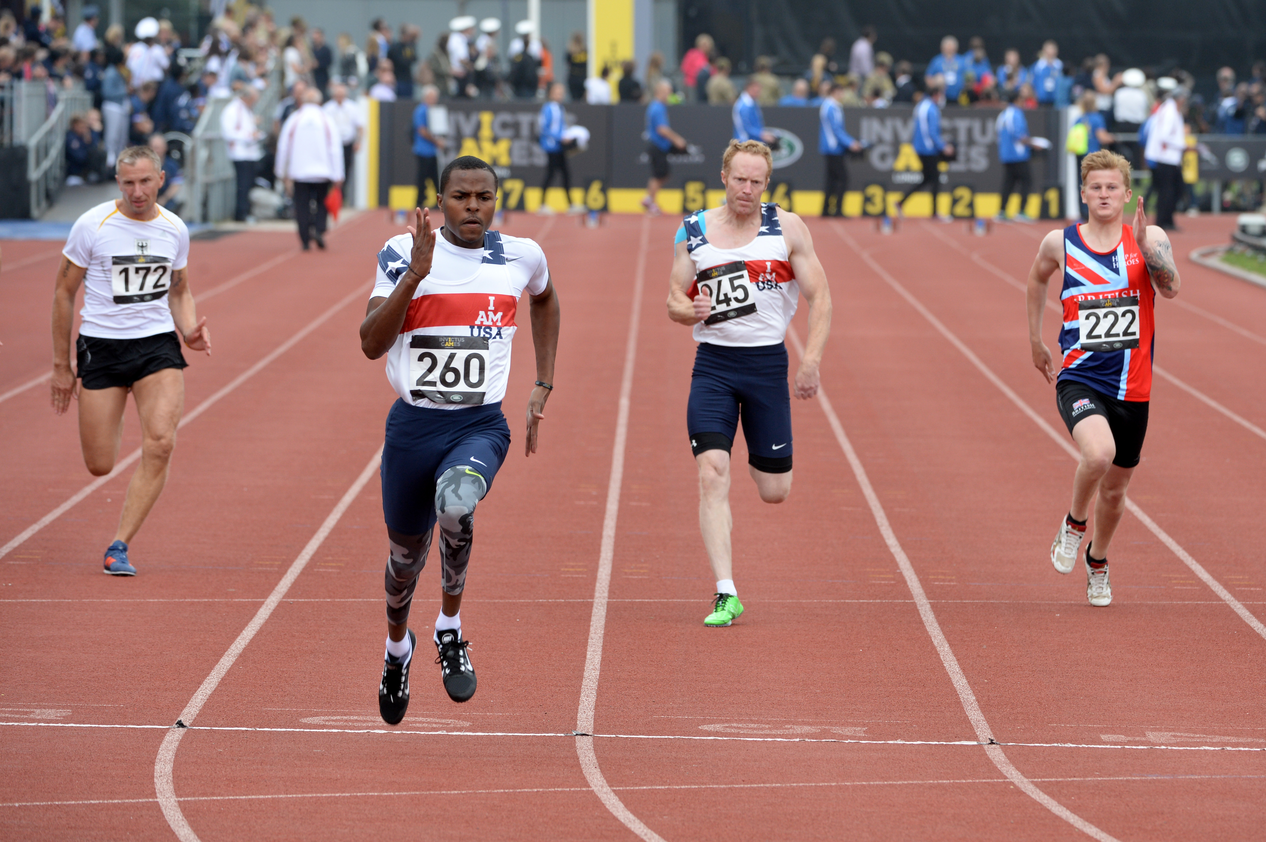 Retired Navy Aviation Boatswain's Mate 3rd Class (Handling) Donald Jackson wins a 100 meter qualifying heat at the 2014 Invictus Games. The international competition brings together wounded, injured and ill service members in the spirit of friendly athletic competition. American Soldiers, Sailors, Airmen and Marines are representing the United States in the competition which is being held in London, England, Sept. 10-14, 2014. (U.S. Navy photo by Mass Communication Specialist 2nd Class Joshua D. Sheppard/Released)